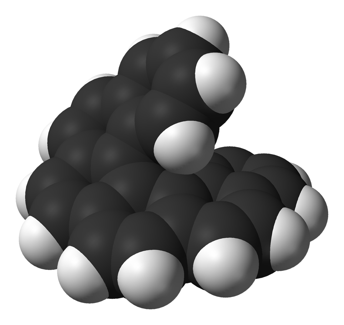 Space-filling model of the hexahelicene molecule, C26H16, CAS # 187-83-7, as found in the crystal structure. X-ray crystallographic data from: Cryst. Struct. Commun. (1973) 2, 189-192. Model constructed in CrystalMaker 8.1. Image generated in Accelrys DS Visualizer.